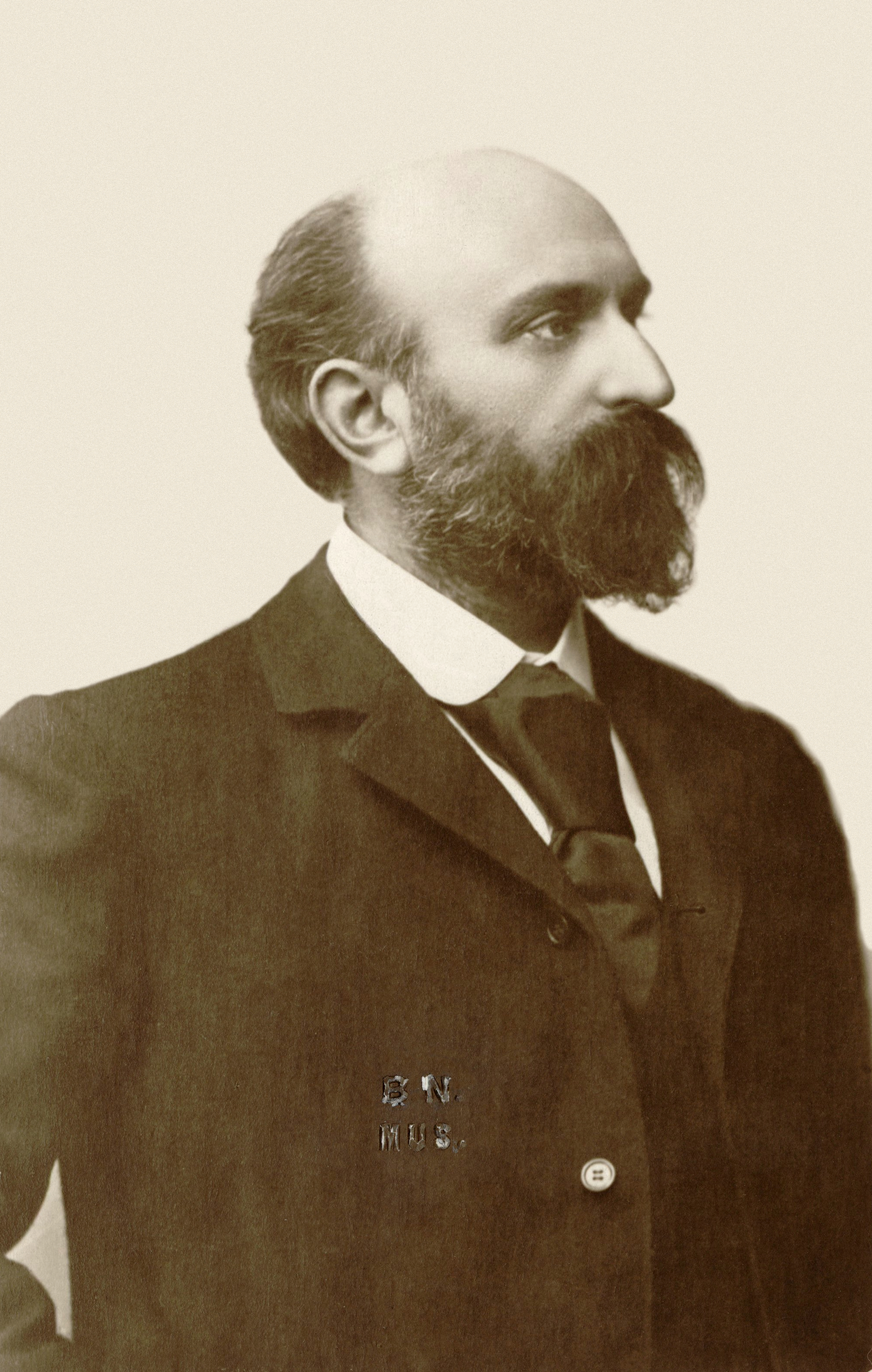 Ernest Chausson (1855 - 1899), french composer.